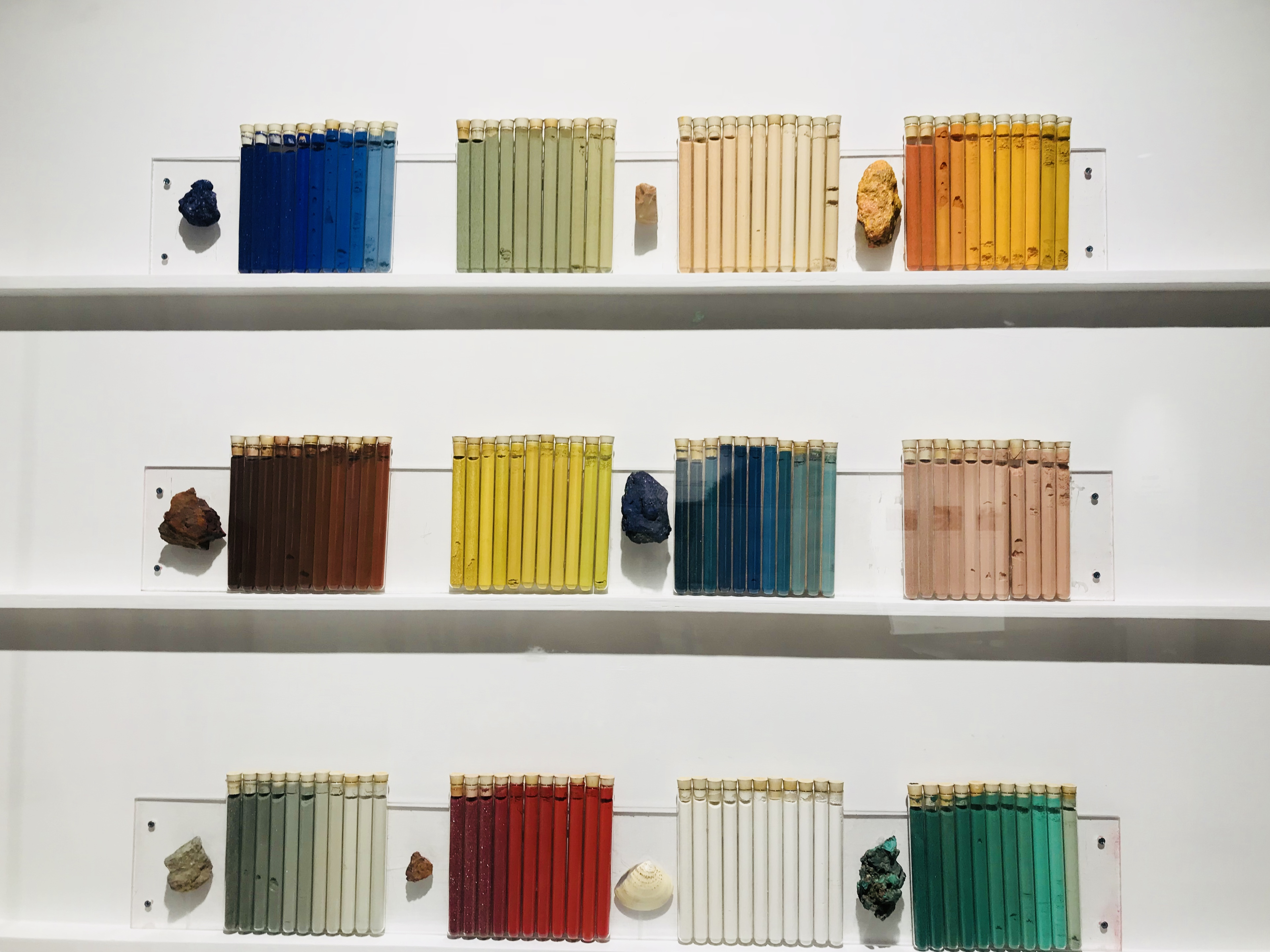 Photo taken at a Mogao cave replica exhibition in Shanghai 2018